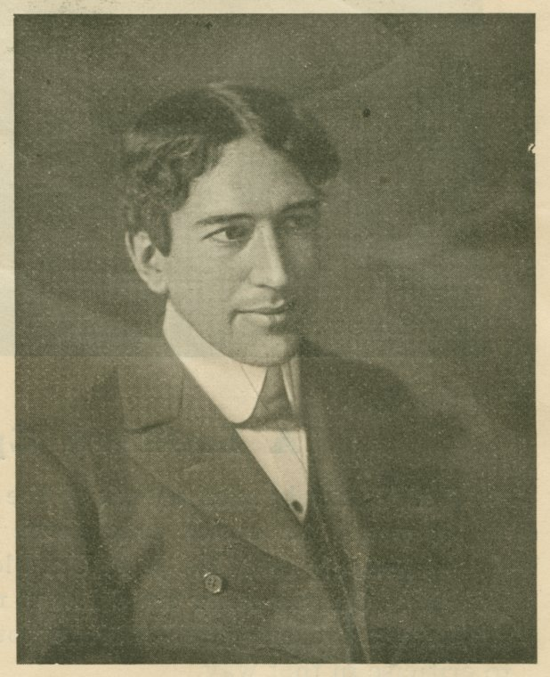 New York publisher and editor